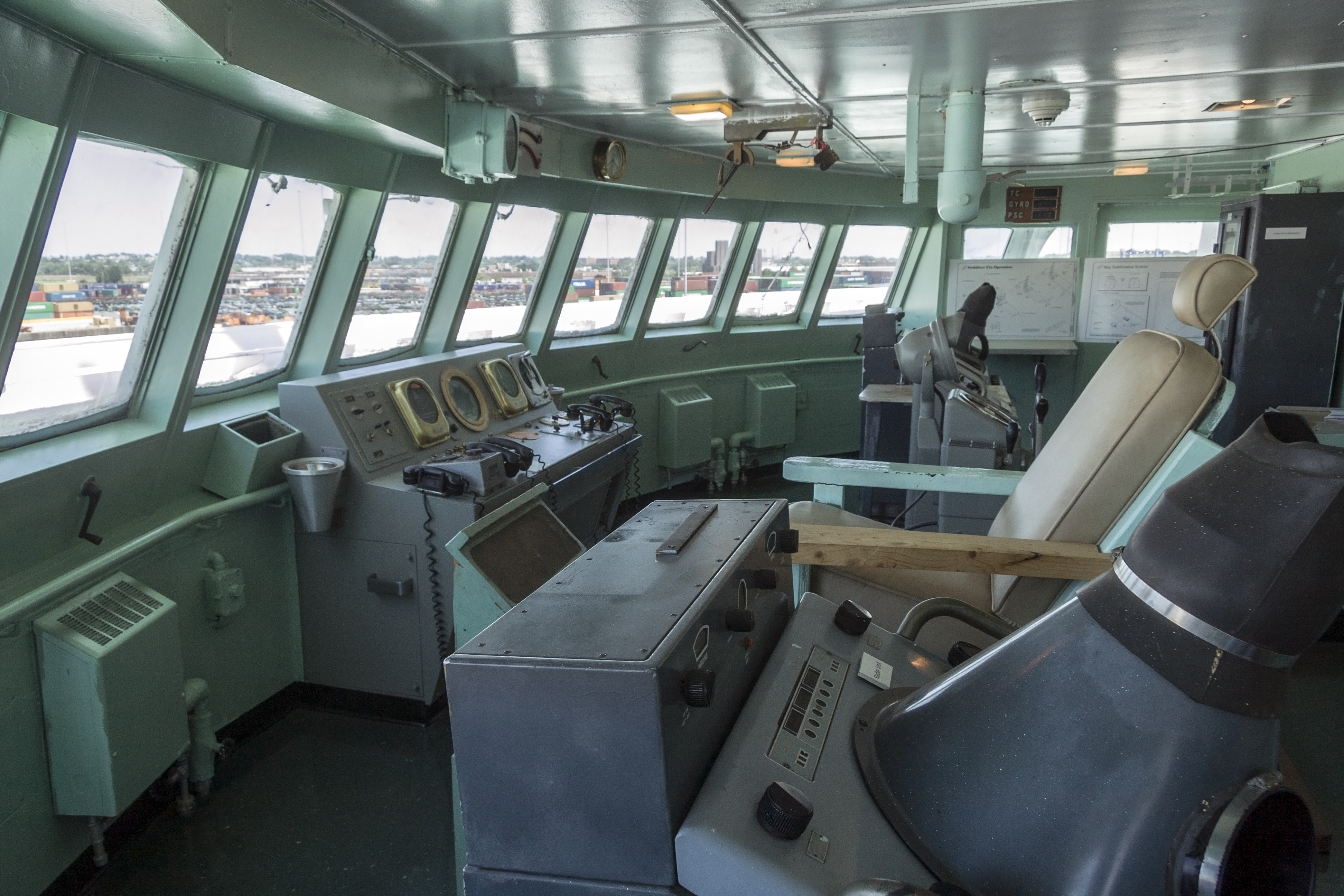 The bridge of the NS Savannah, Baltimore, Maryland, USA